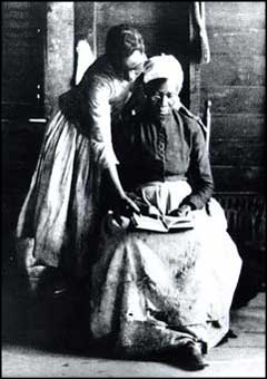 Former slave reading, 1870